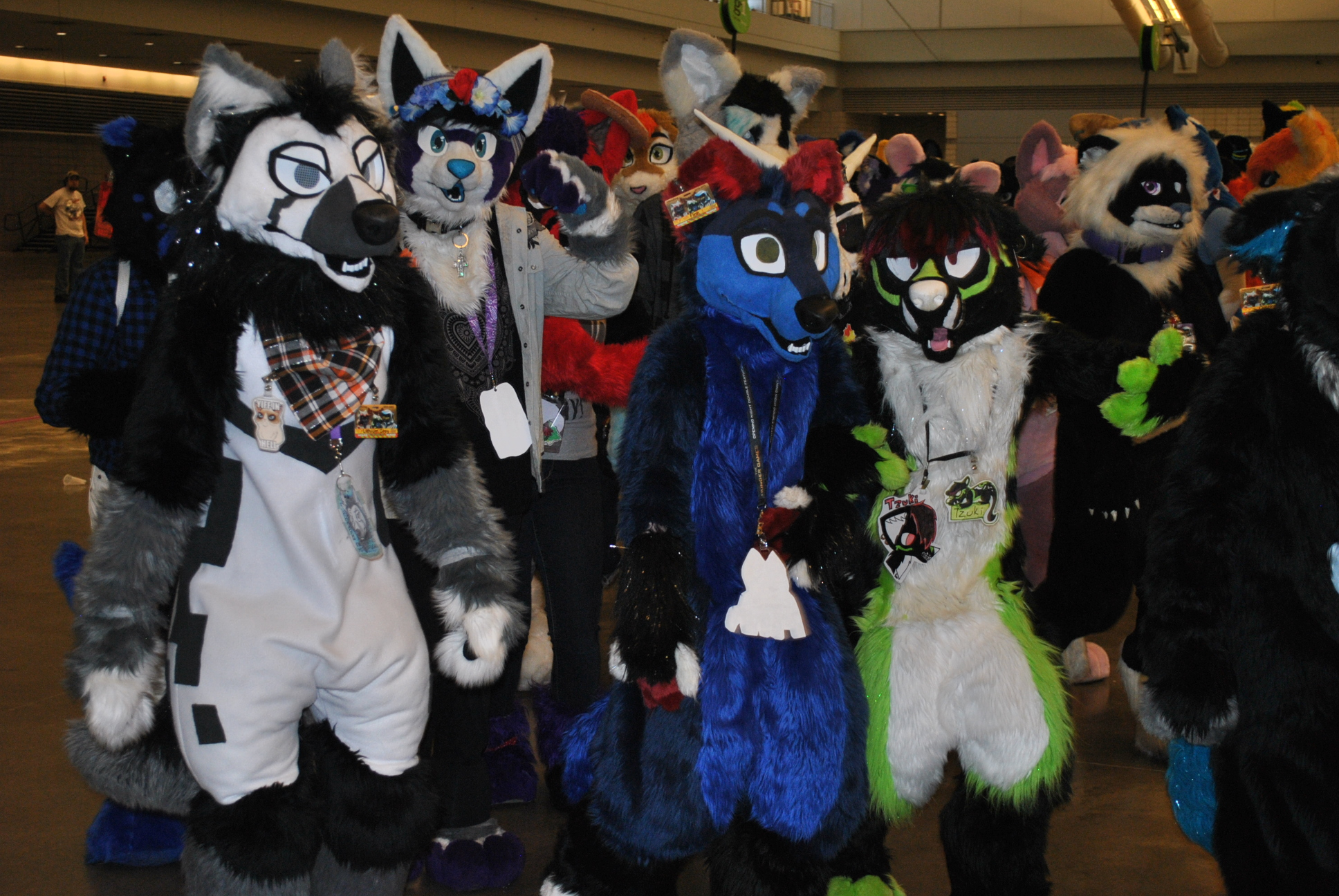 Group of people of furry fandom wearing a fursuit, at Anthrocon 2014.